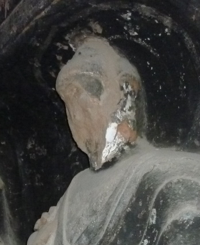 Buddhas, faces destroyed during Cultural Revolution